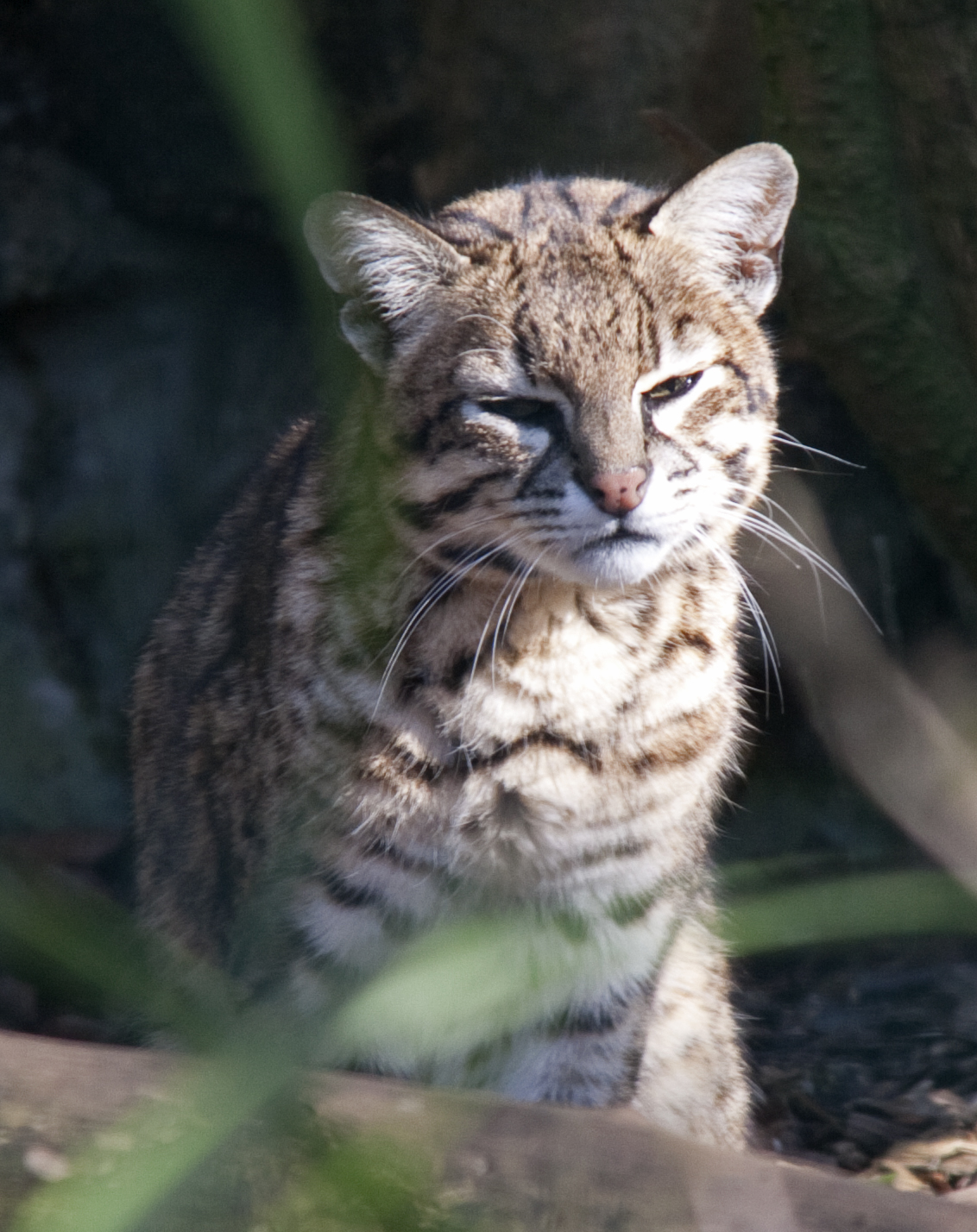 A Geoffroy's Cat at Dudley Zoo, West Midlands, England.